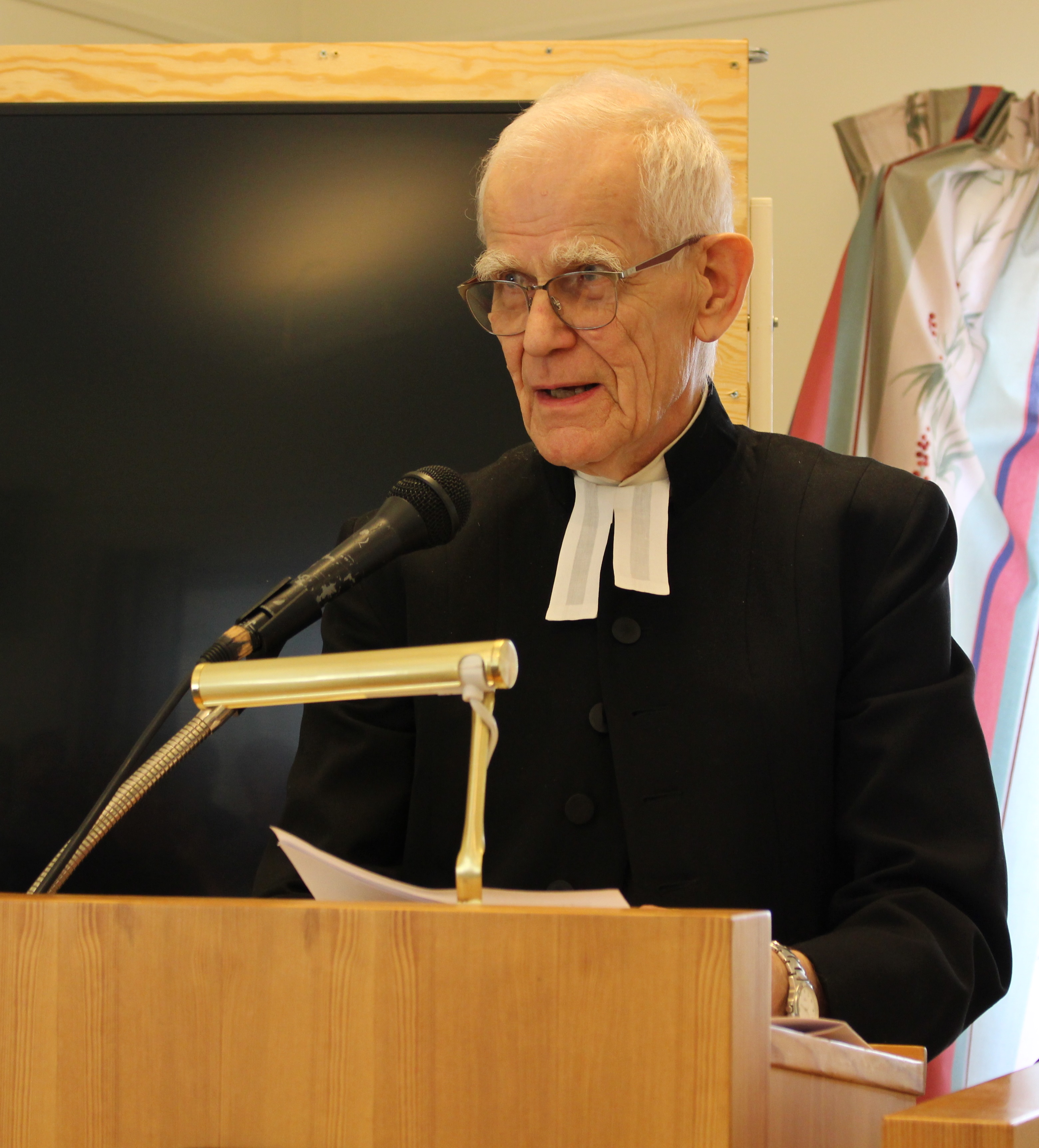 Ragnar Block.